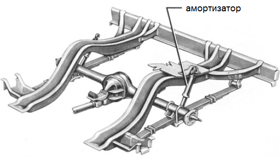 The Chrysler Turbine Car. Rear suspension.